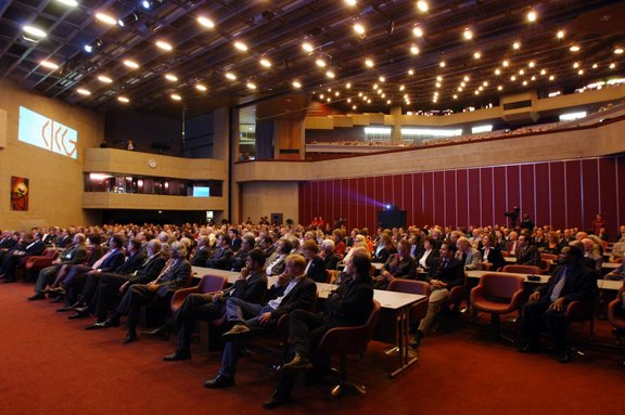 WorldMUN Committee Sessions